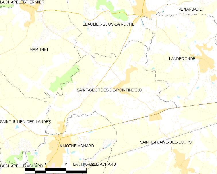 Map of French municipality Saint-Georges-de-Pointindoux